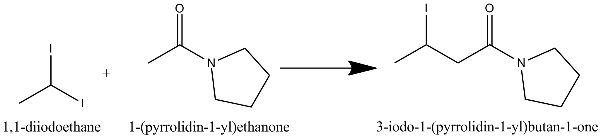 The examples of enolate substitution using 1,1-diiodoethane as a reactant created by ChemBioDraw